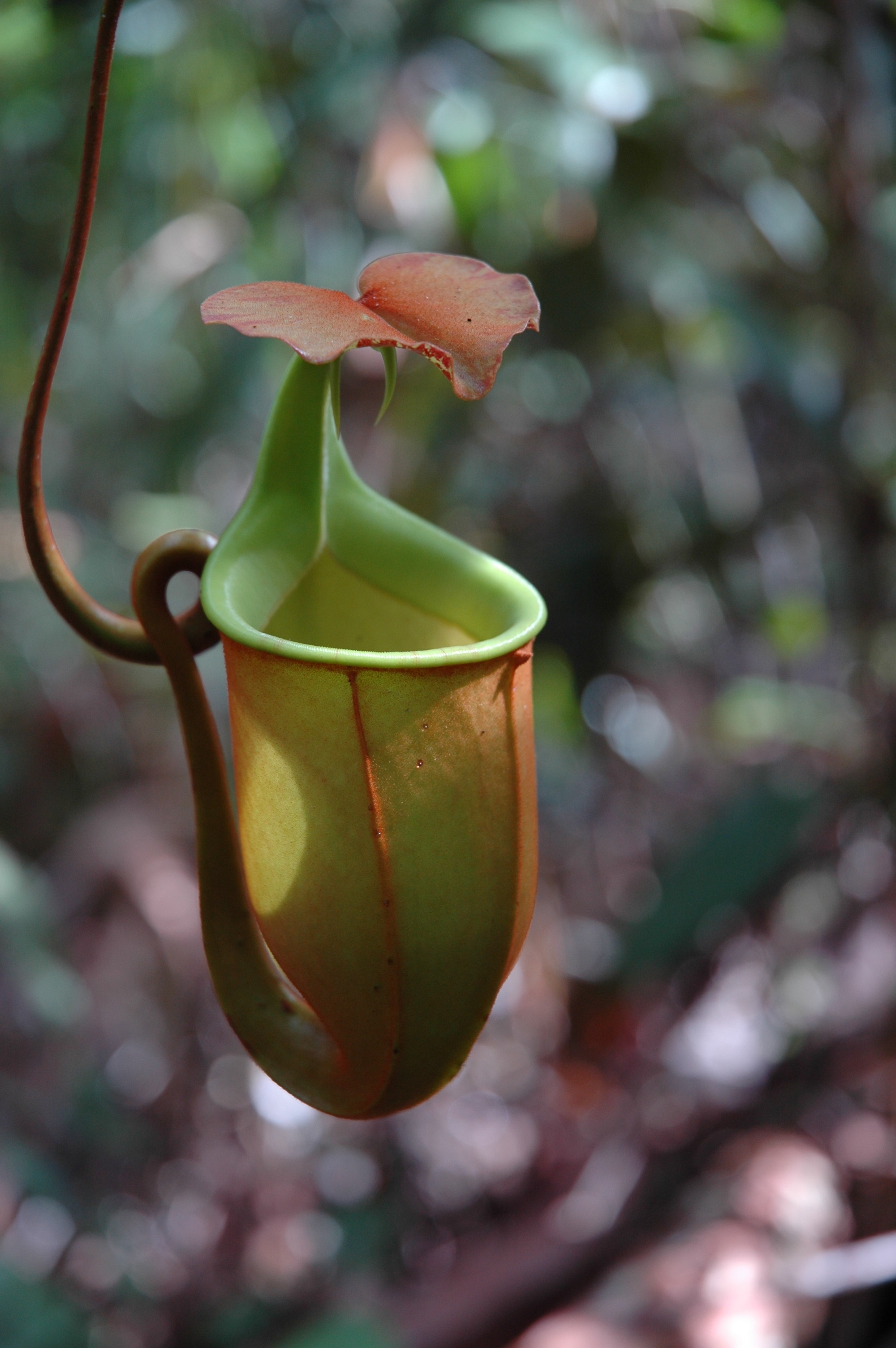 Nepenthes bicalcarata Serian road side By Jeremiah Harris